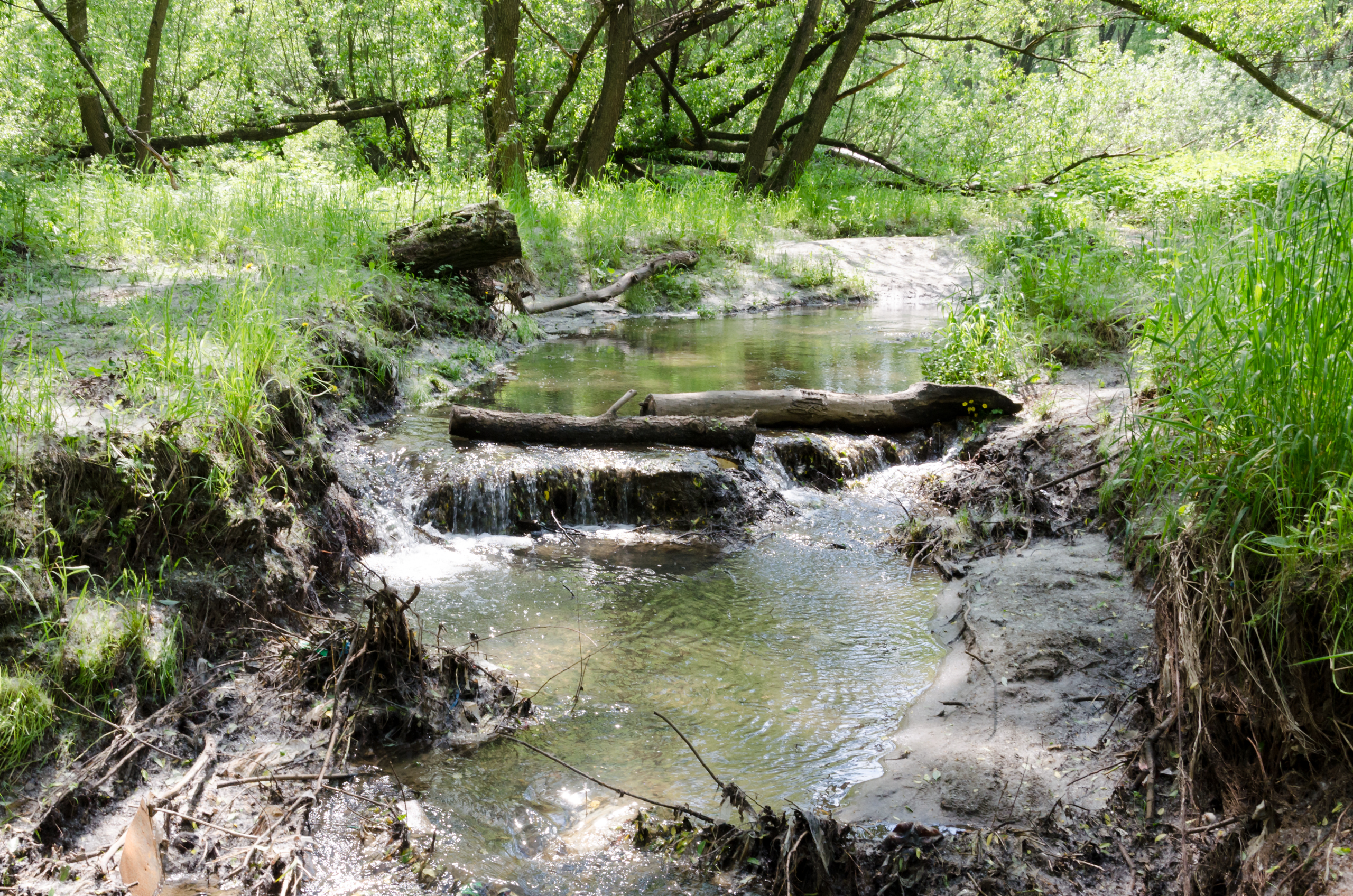 Shmelyovka stream: South Administrative Okrug, Moscow This image is related to the protected area of Russia number 7710556